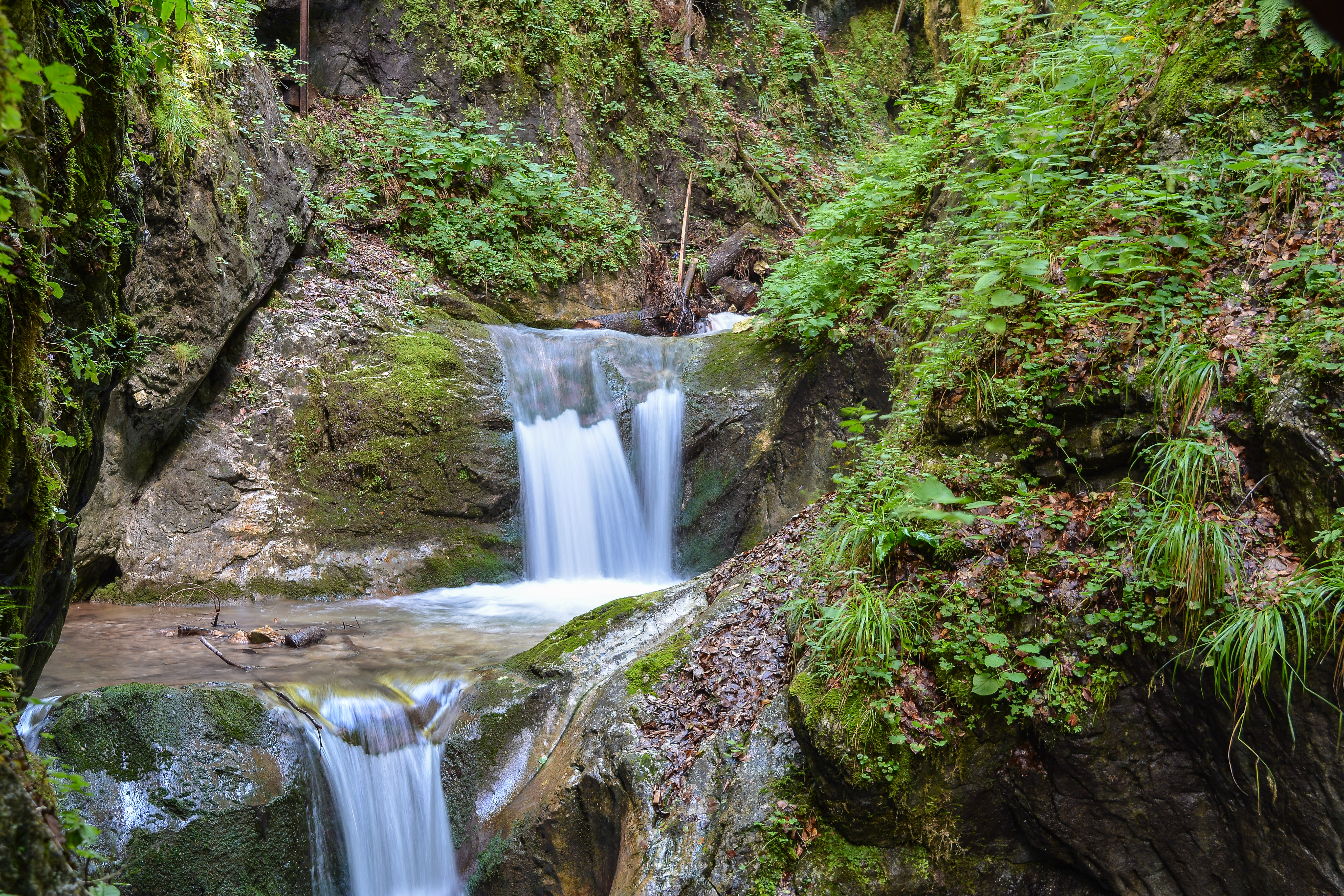 The ravine Dr.-Vogelgesang-Klamm is in the second place among the longest ravines in Austria which can be accessed by walkers. It is named after the medical practitioner Dr. Vogelgesang who was the initiator of erection of the pedestrian bridges trough the ravine. This media shows the natural monument in Upper Austria with the ID nd181.